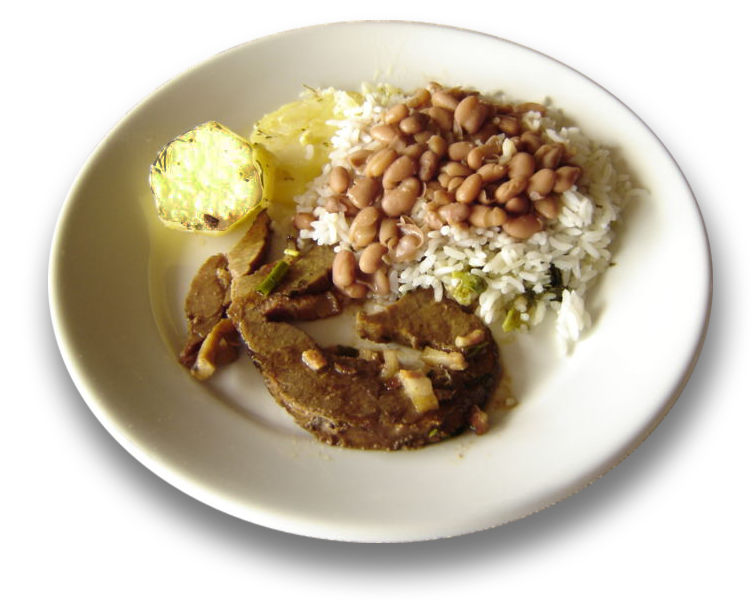 Modified version of Image:Rice and beans, Hotel in Itatiaia.jpeg. Modification done by me (Jak)